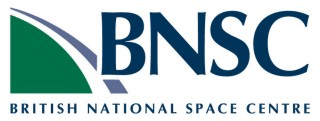 British National Space Centre logo